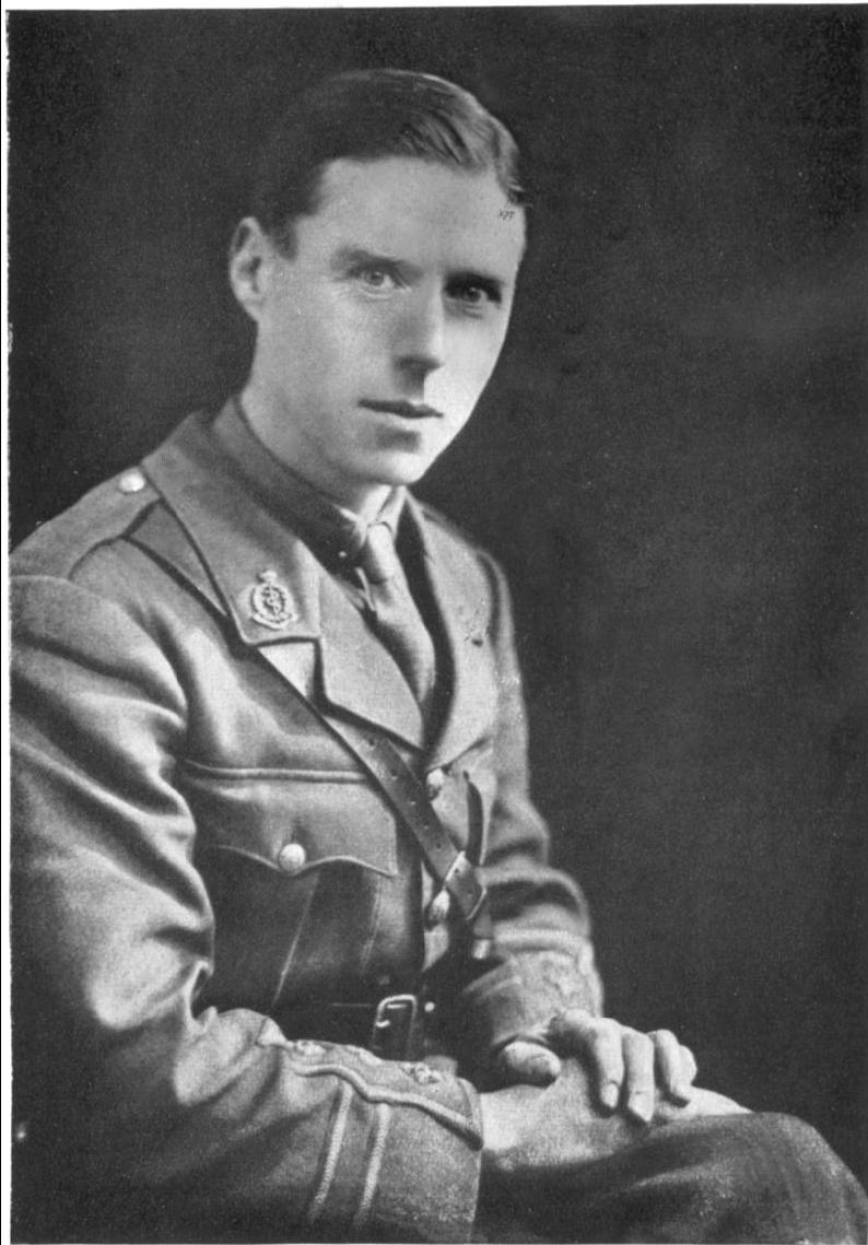 Frederick Twort ca 1900